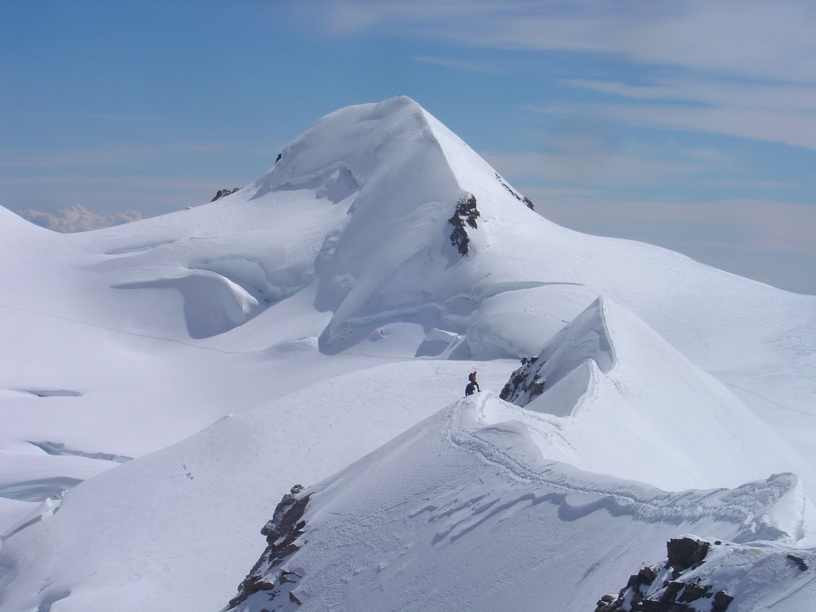 Parrotspitze, view from the east edge of Lyskamm